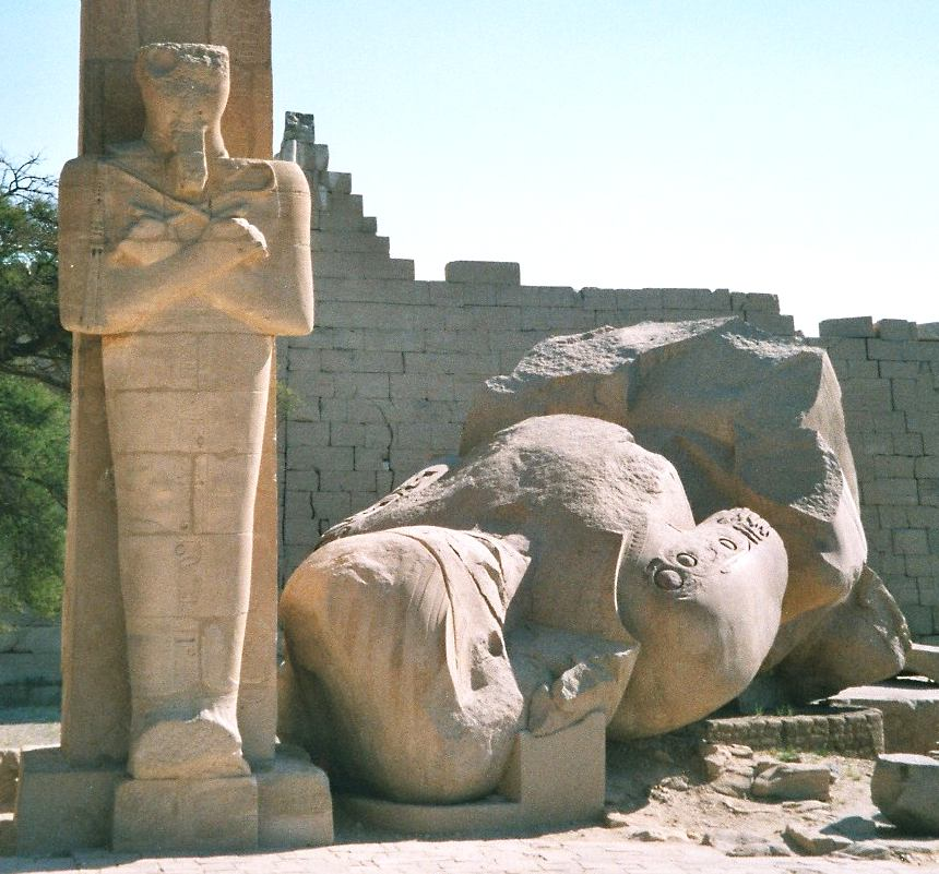 Fallen colossus of Ramesses II; Ramesseum, Luxor.